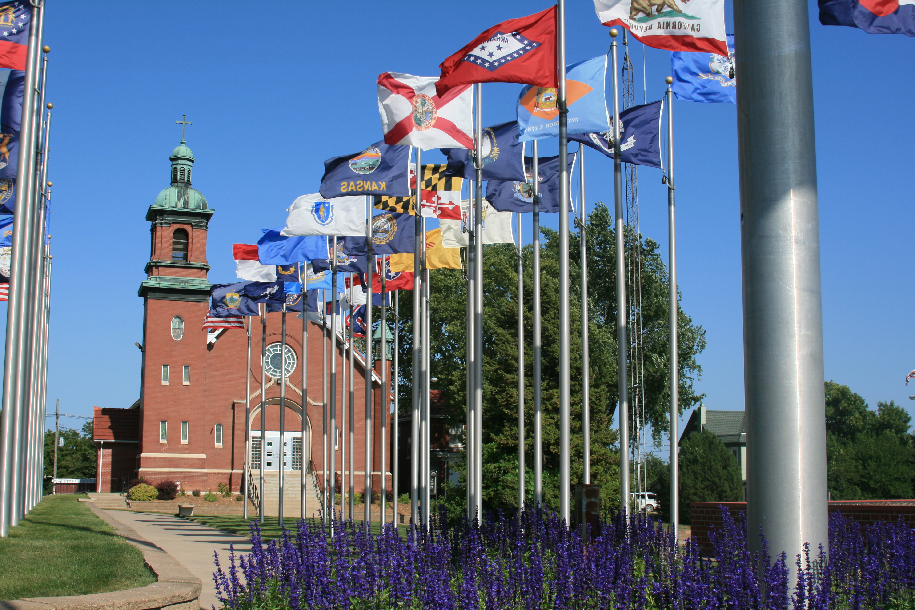 A view of the flag display in Brooklyn, Iowa. The building shown is St. Patrick Catholic Church.